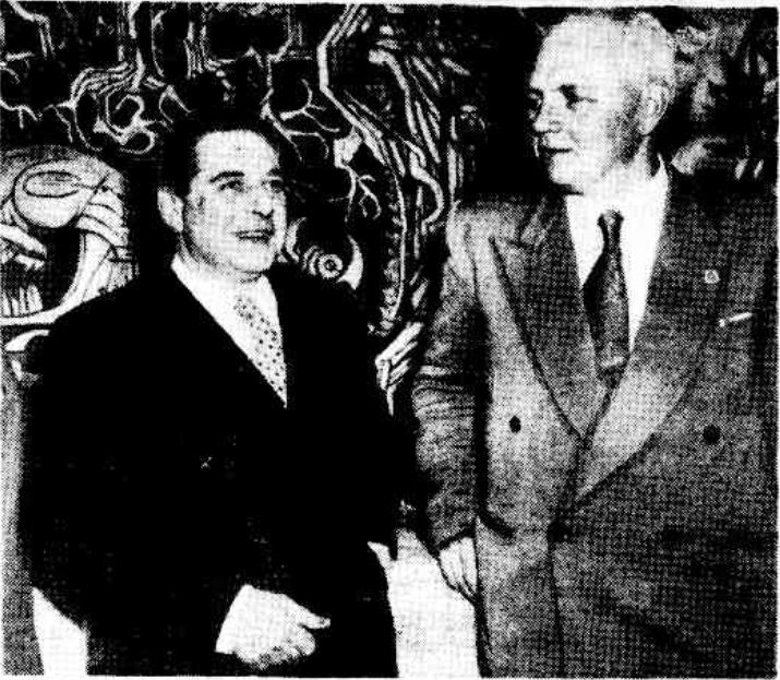 Tasmanian Minister for Immigration Charles Hand (right) and French Consul-General Jean Strauss (left) at the opening of French Painting Today, Hobart 1953